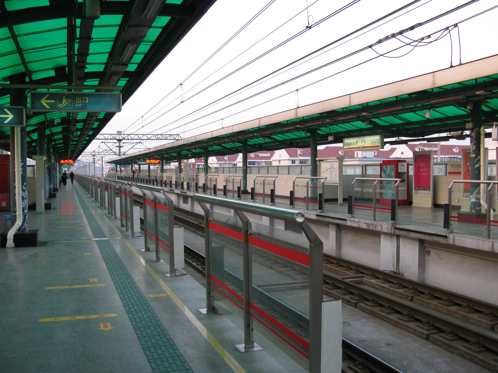 呼蘭路站-1號線月台 Line 1 Platform of Hulan Road Station